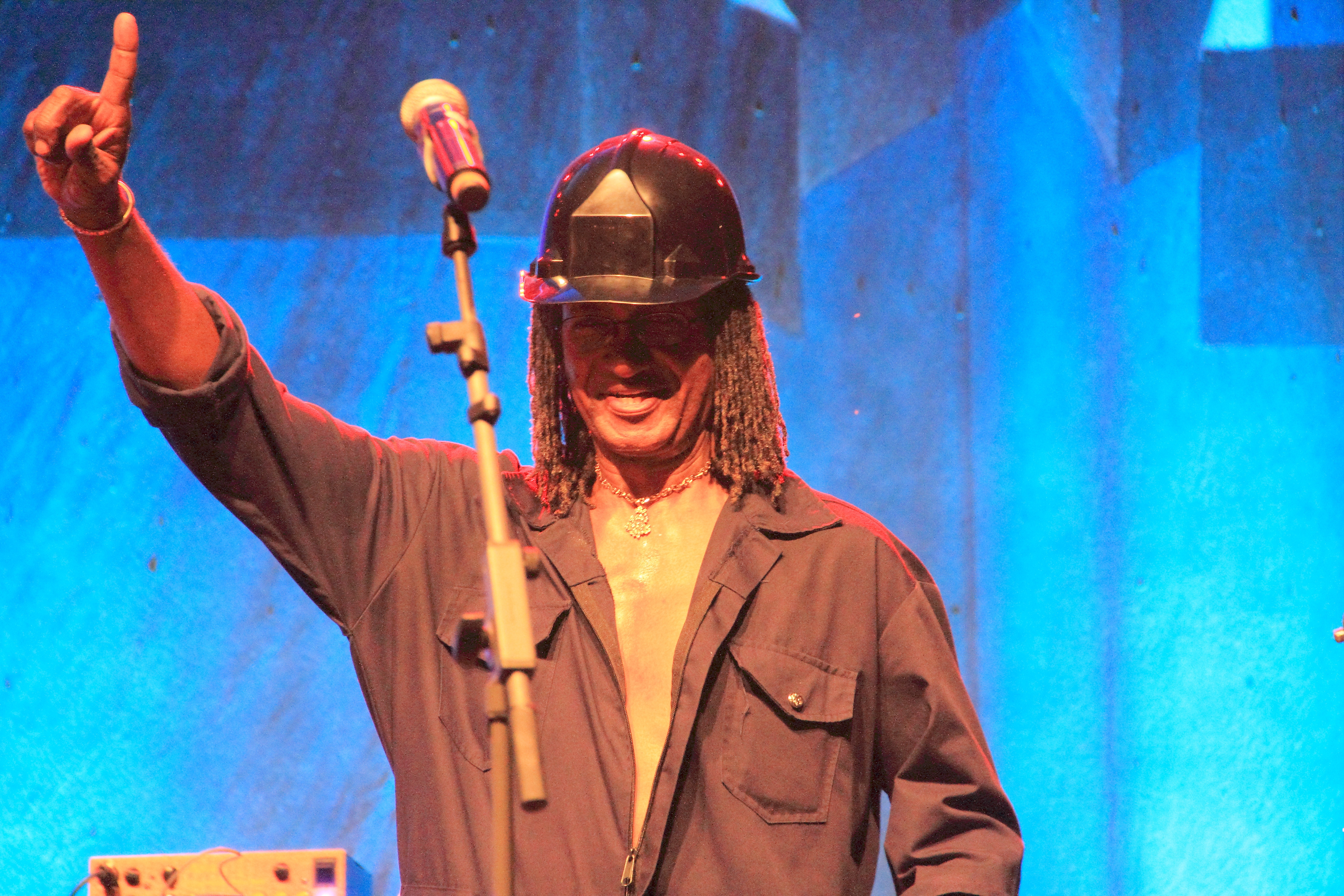 Sly (Dunbar) with Robbie (Shakespeare) and Nils Petter Molvær at TFF Rudolstadt, 2015.